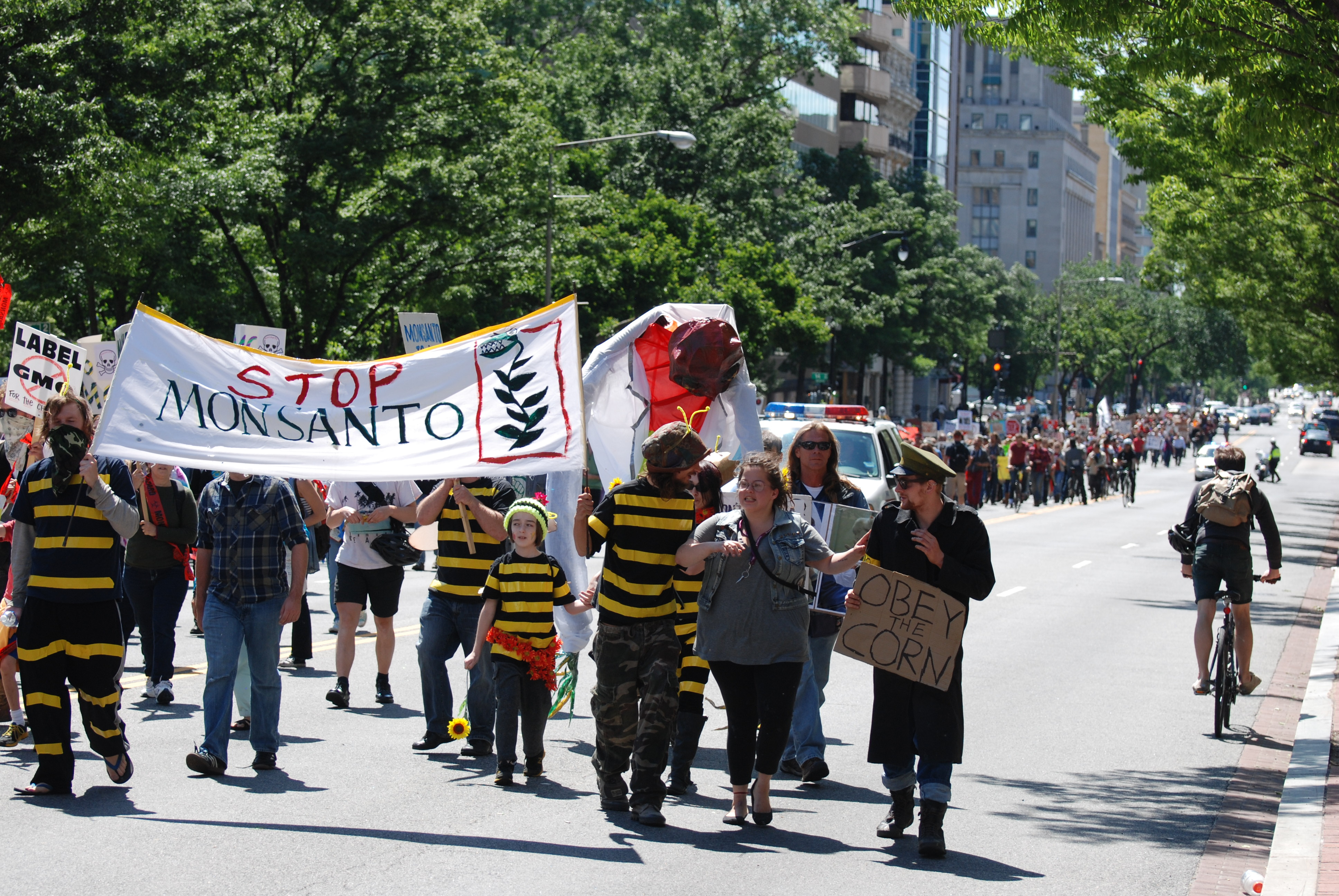 March Against Monsanto, Washington, D.C. This is on K St, NW at the 13-14th St NW, DC area (MacPherson Square's north side) looking west. You can probably see the march crowd was 3-4 blocks long.